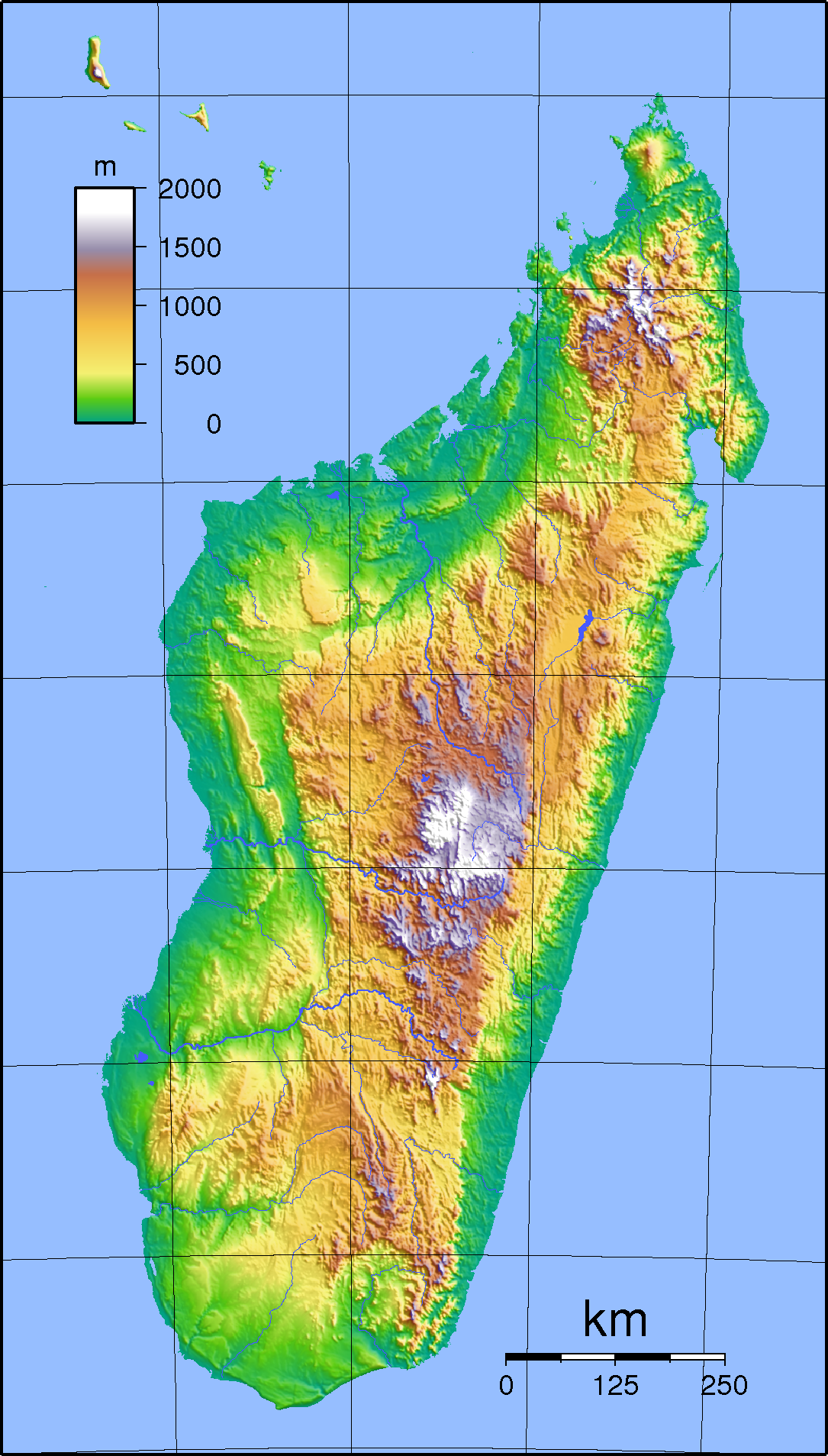 Topographic map of Madagascar. Created with GMT from SRT data.